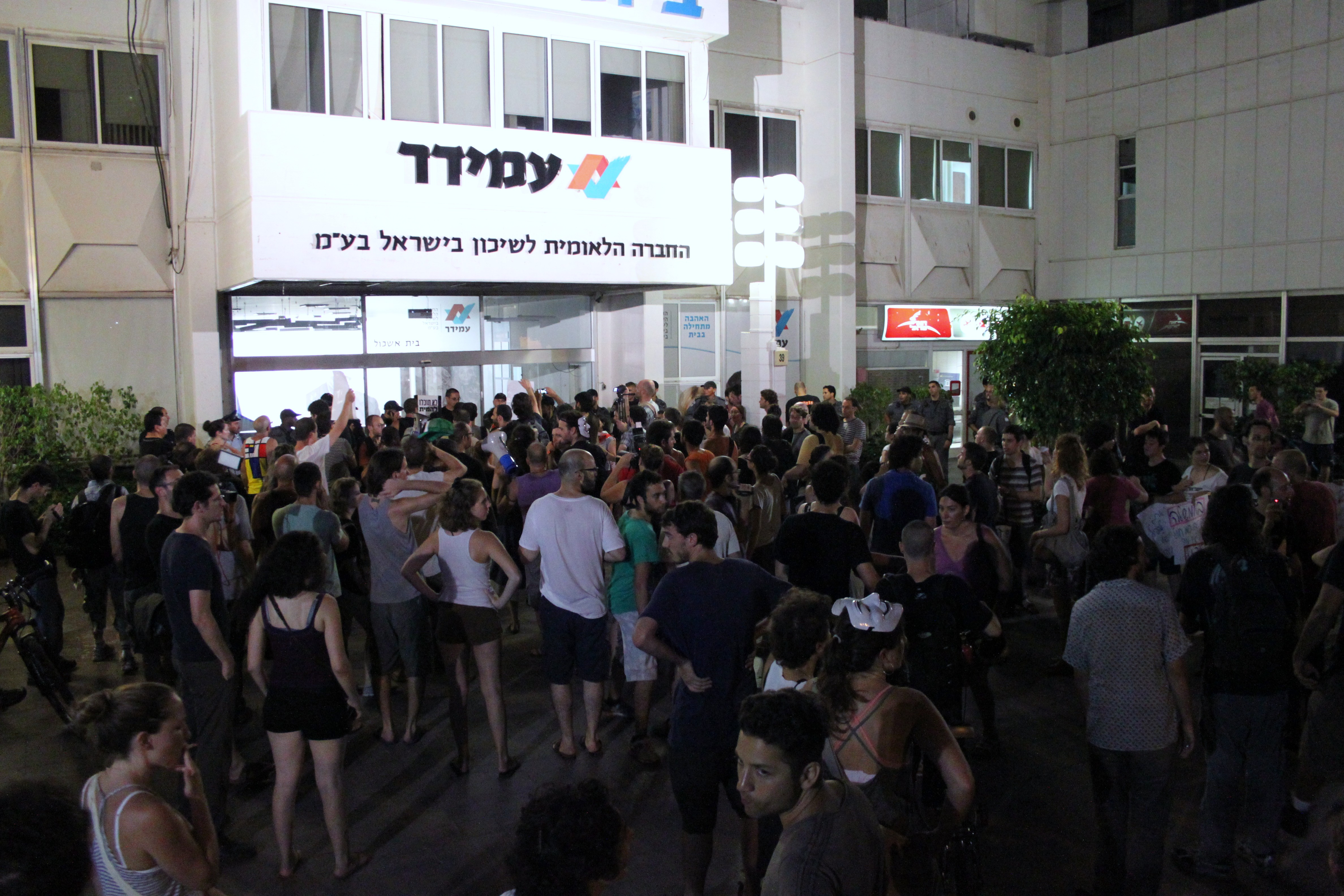 Demonstration for social justice in Tel Aviv, Israel, July 15, 2012. Protesting for public housing near Amidar offices.